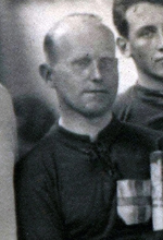 Hansjacob Mattsson with the swedish national ice hockey team at the 1920 Summer Olympics in Antwerp, Belgium. The picture is a crop out of a larger team photo taken inside the ice rink Palais de Glace d'Anvers. The ice hockey tournament at the 1920 Summer Olympics took place between April 23 and April 29.